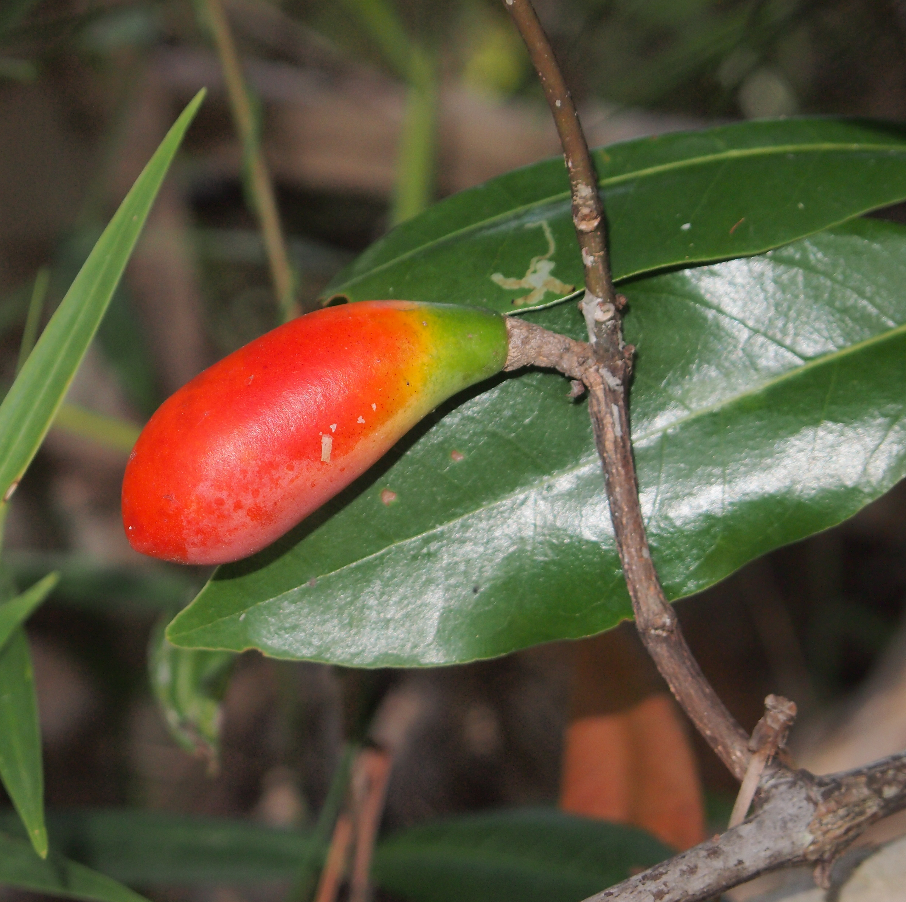 Melodinus australis fruit